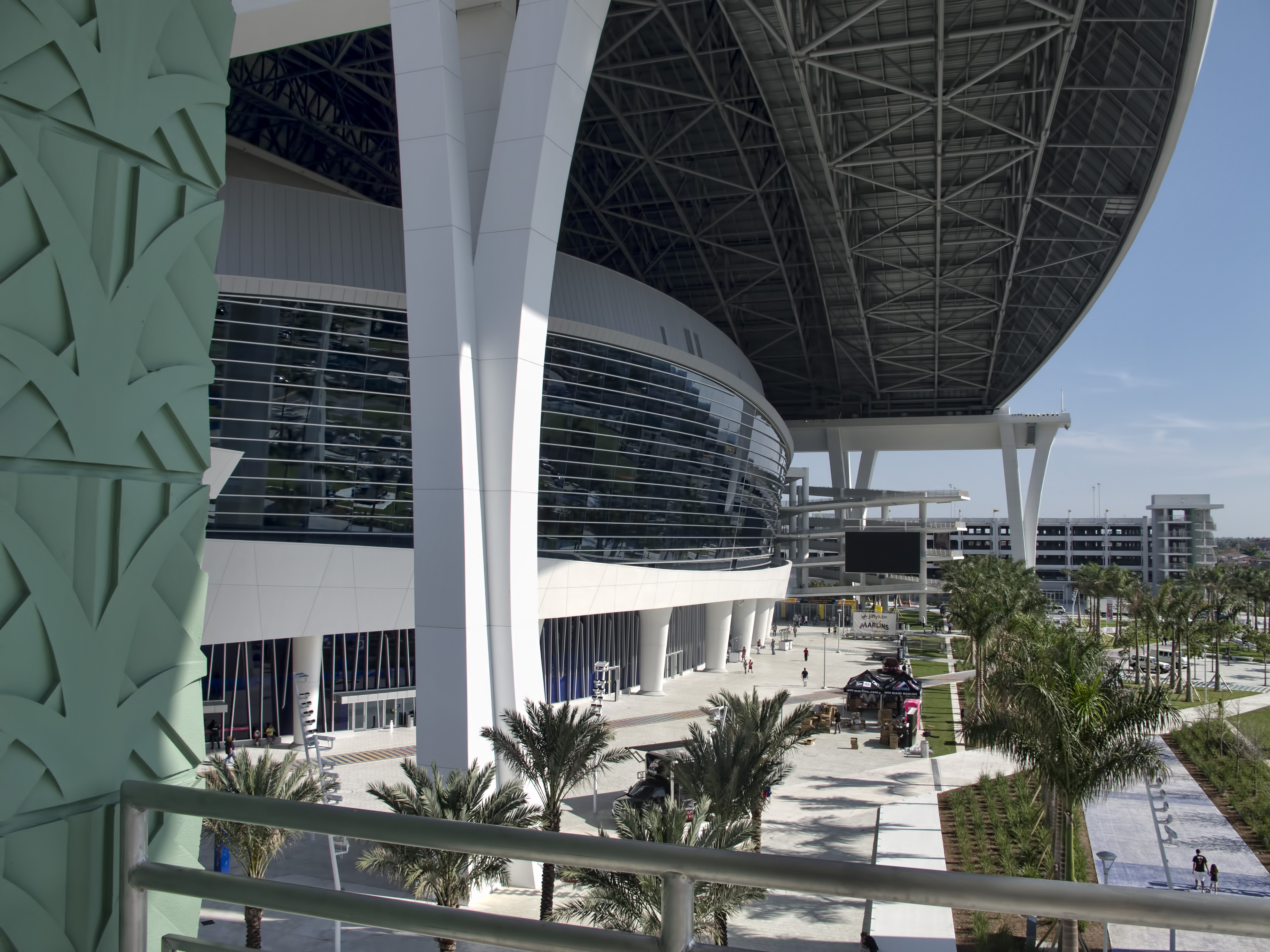 The front (west) plaza of Marlins Park from the home-plate parking garage.